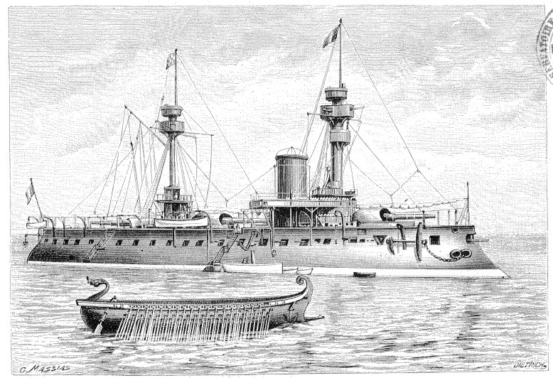 French battleship Formidable displayed beside an antique galley for size comparison